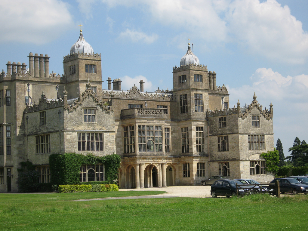 Charlton House